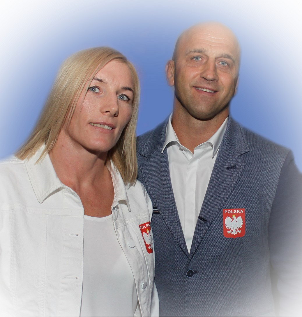 Monika Michalik & and his trainer Krzysztof Ołenczyn (2016 r.)